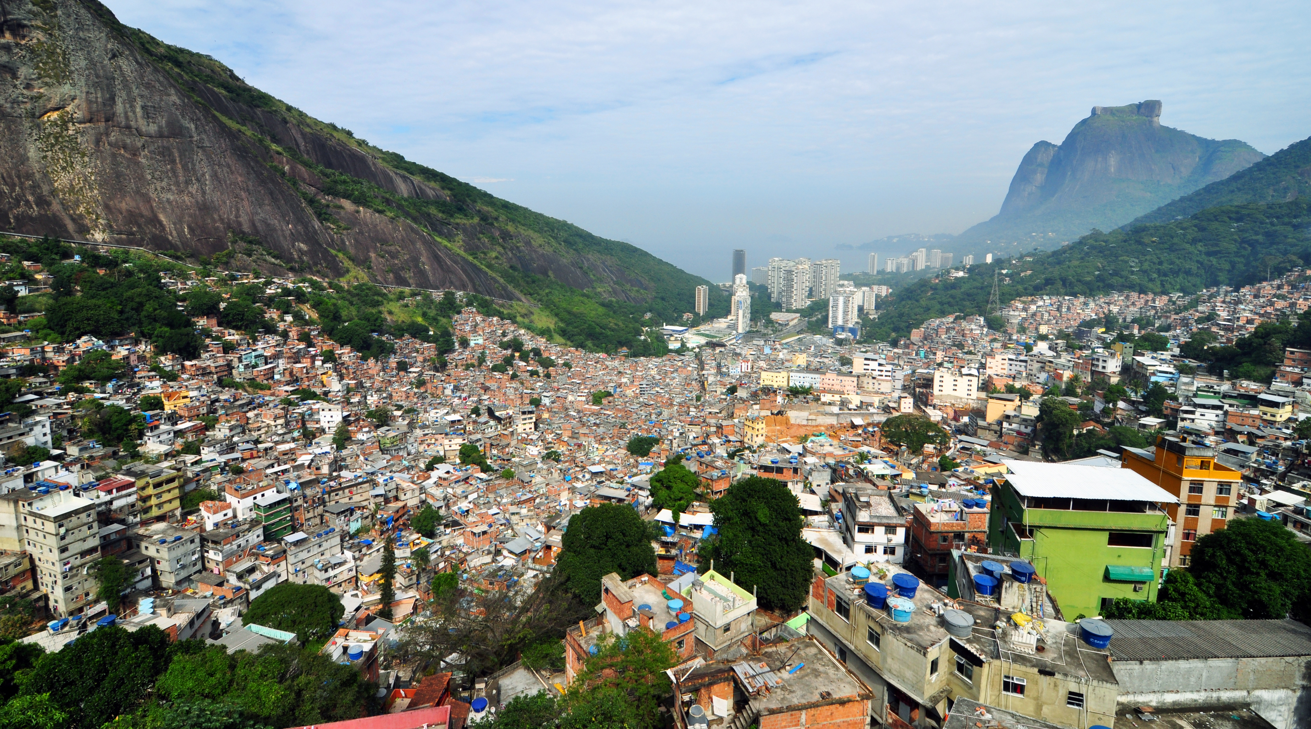 Rocinha favela Rio de Janeiro 2010